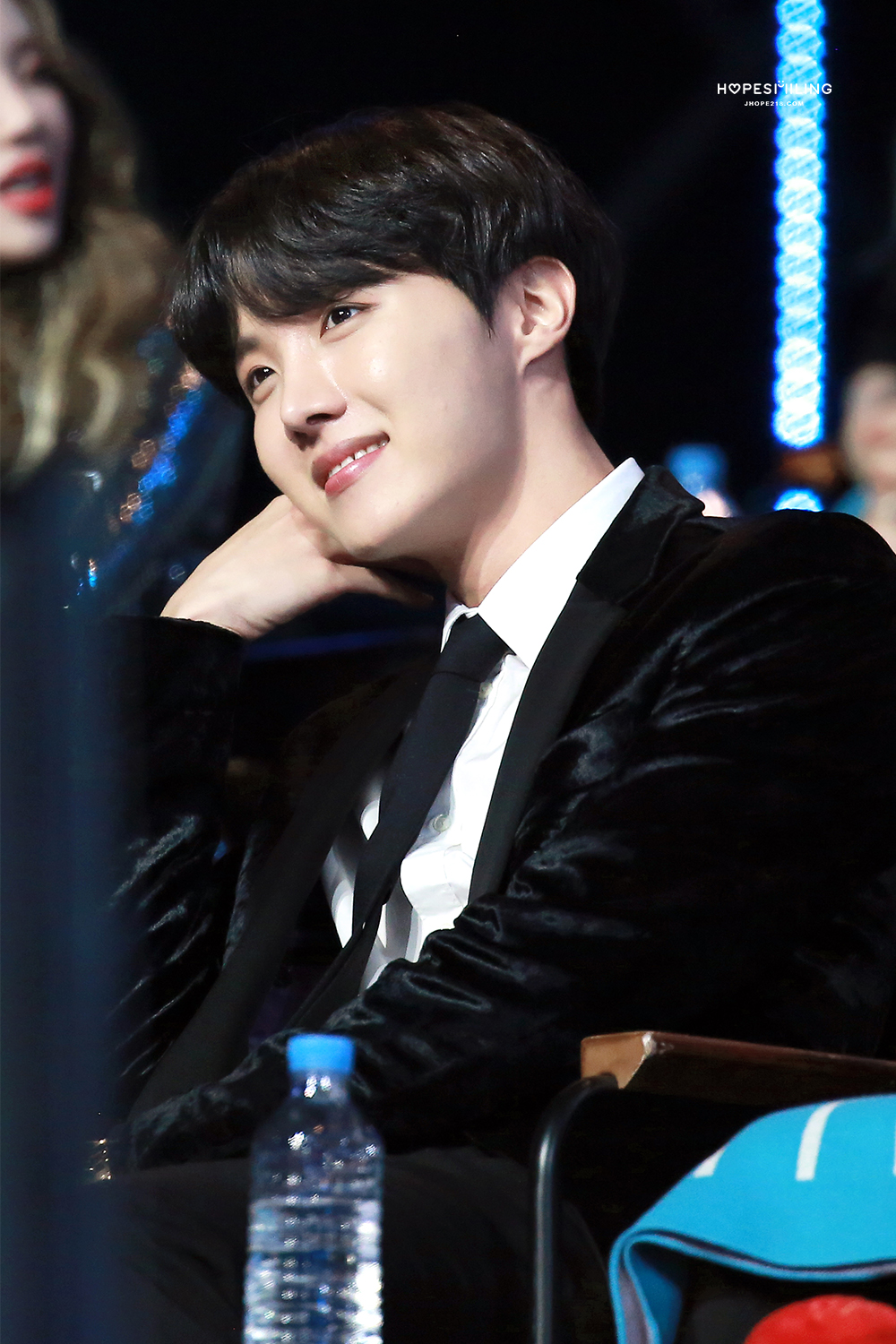 J-Hope at the 2019 Golden Disc Awards day 1